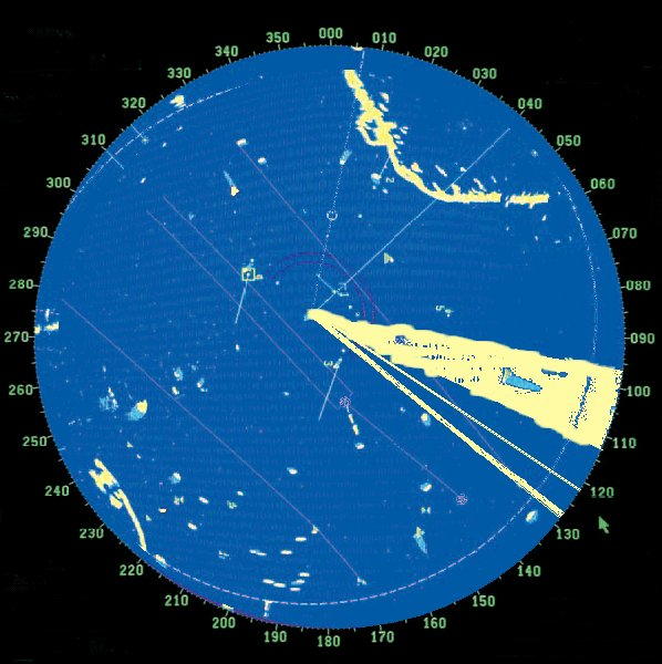 Radar jamming effect as simulated on a simulated naval radar scope. The three jamming sources are located between 90 and 130 degrees